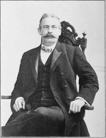 Journalist and polar explorer Walter Wellman (1858-1934)